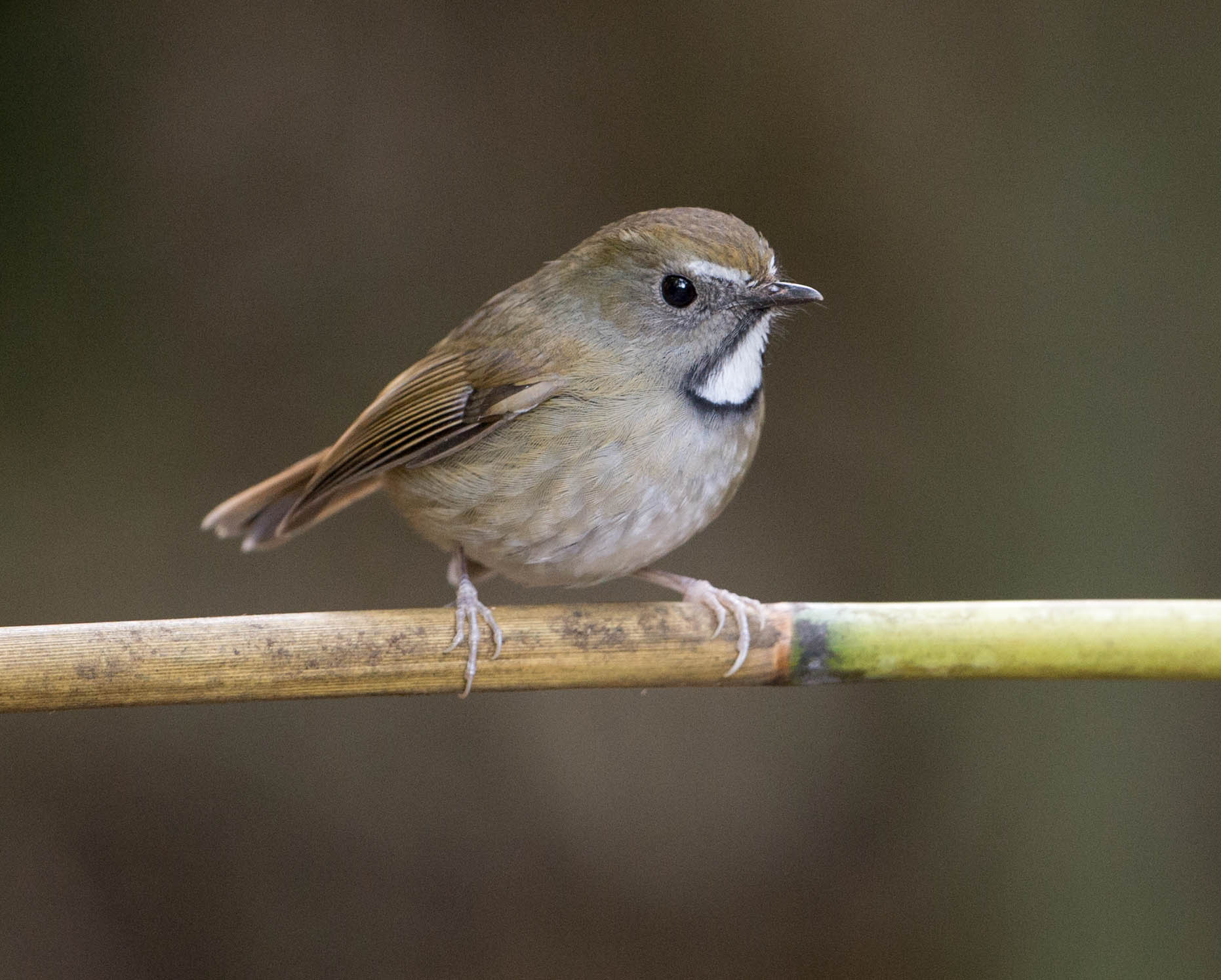 White-gorgeted Flycatcher (Ficedula monileger) at Doi Lang, Chiang Mai Thailand